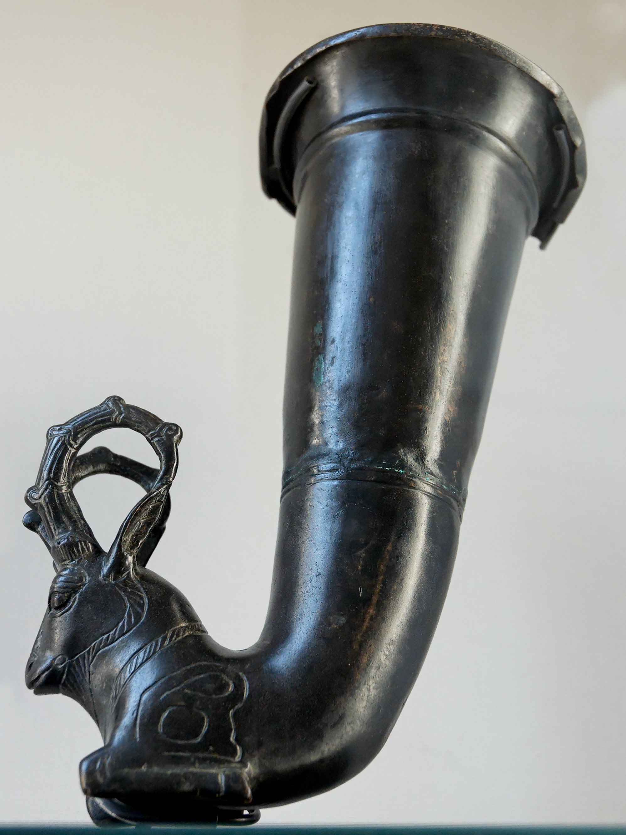 Ibex rhyton. Bronze, Achaemenid artwork, late 6th–4th century BC.